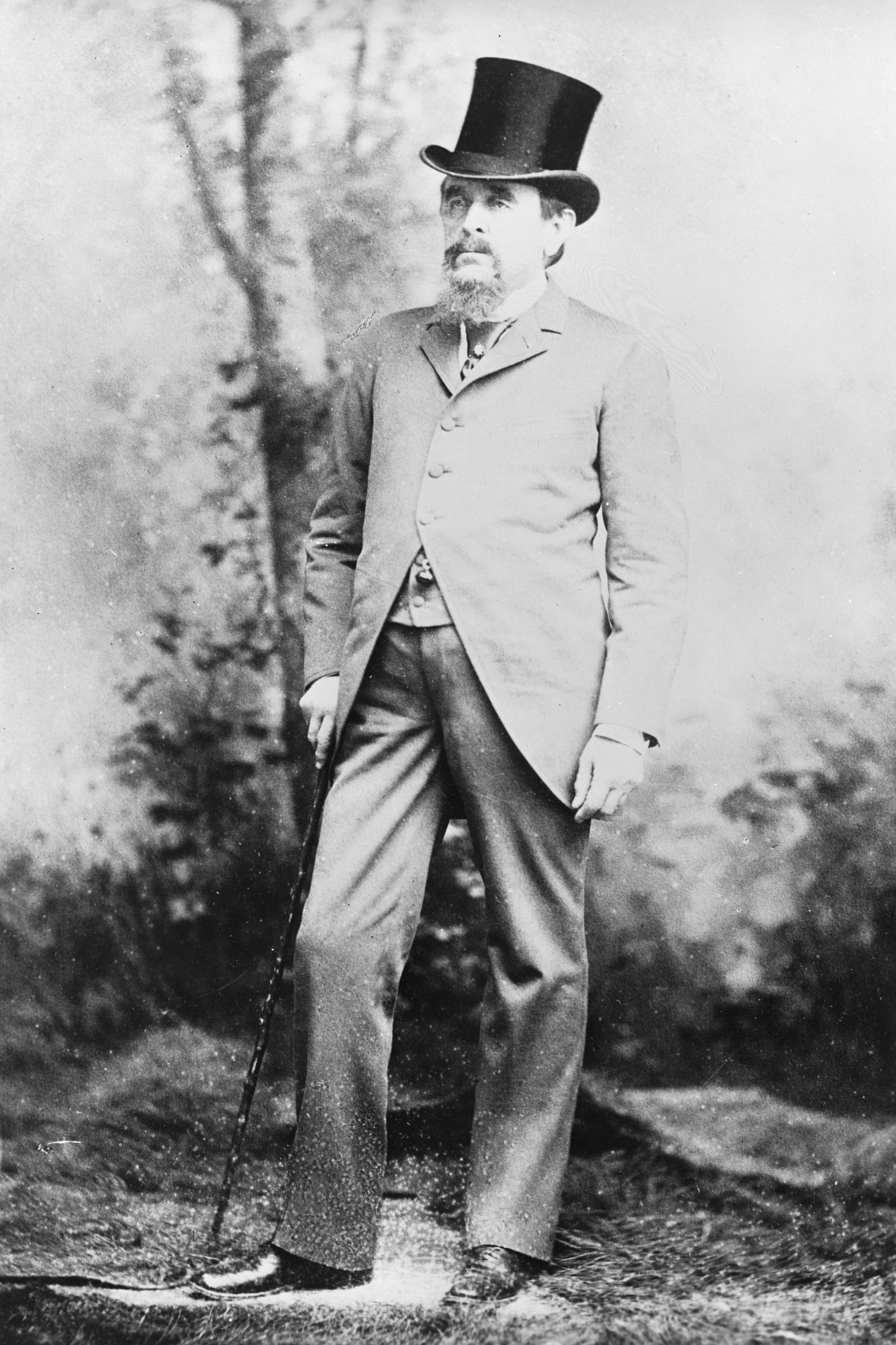 Photographic portrait of the entrepeneur Colonel Robert Symington Baker, co-founder of Santa Monica.